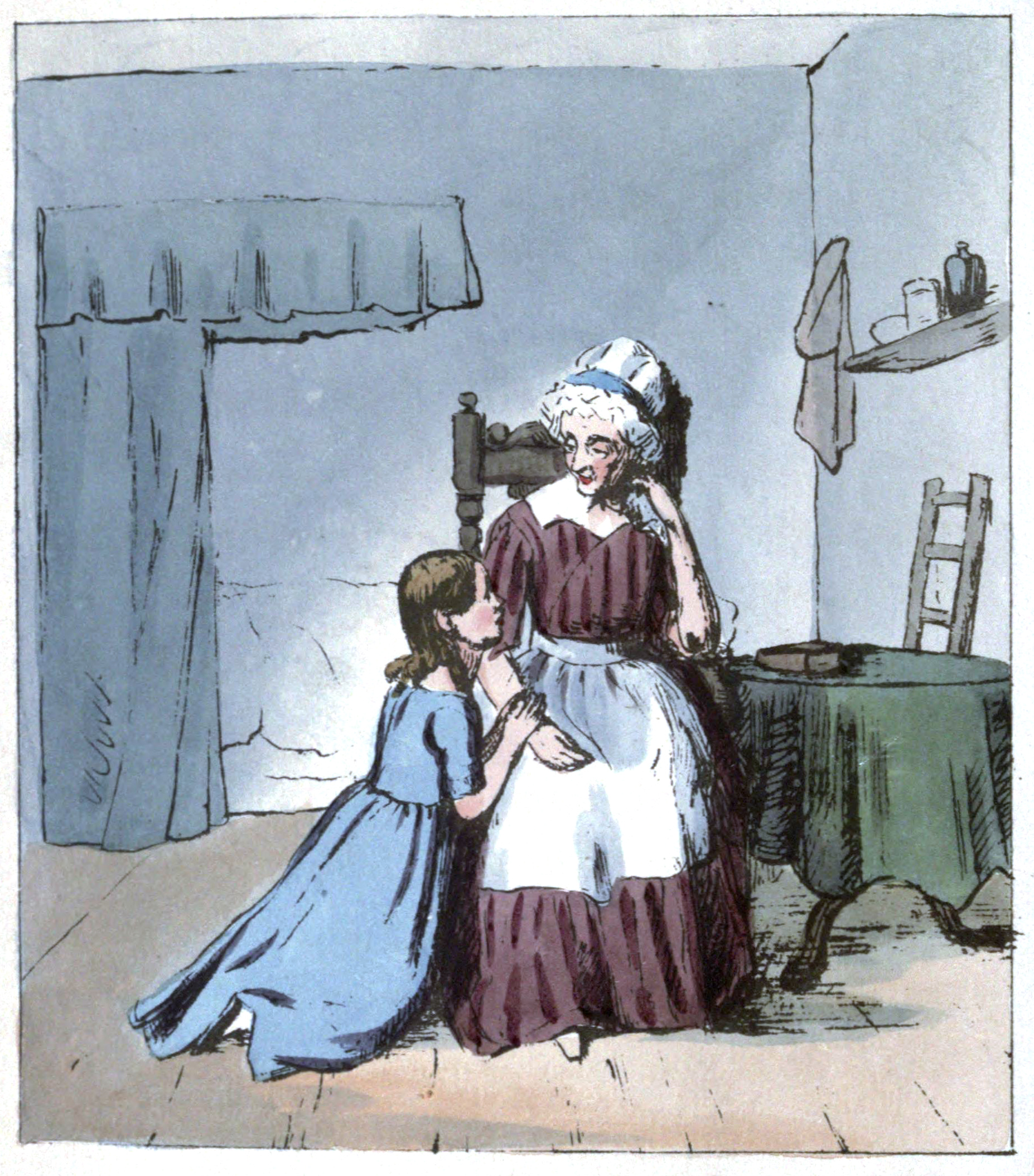 Illustration of the fairy tale “Little Red Riding Hood”